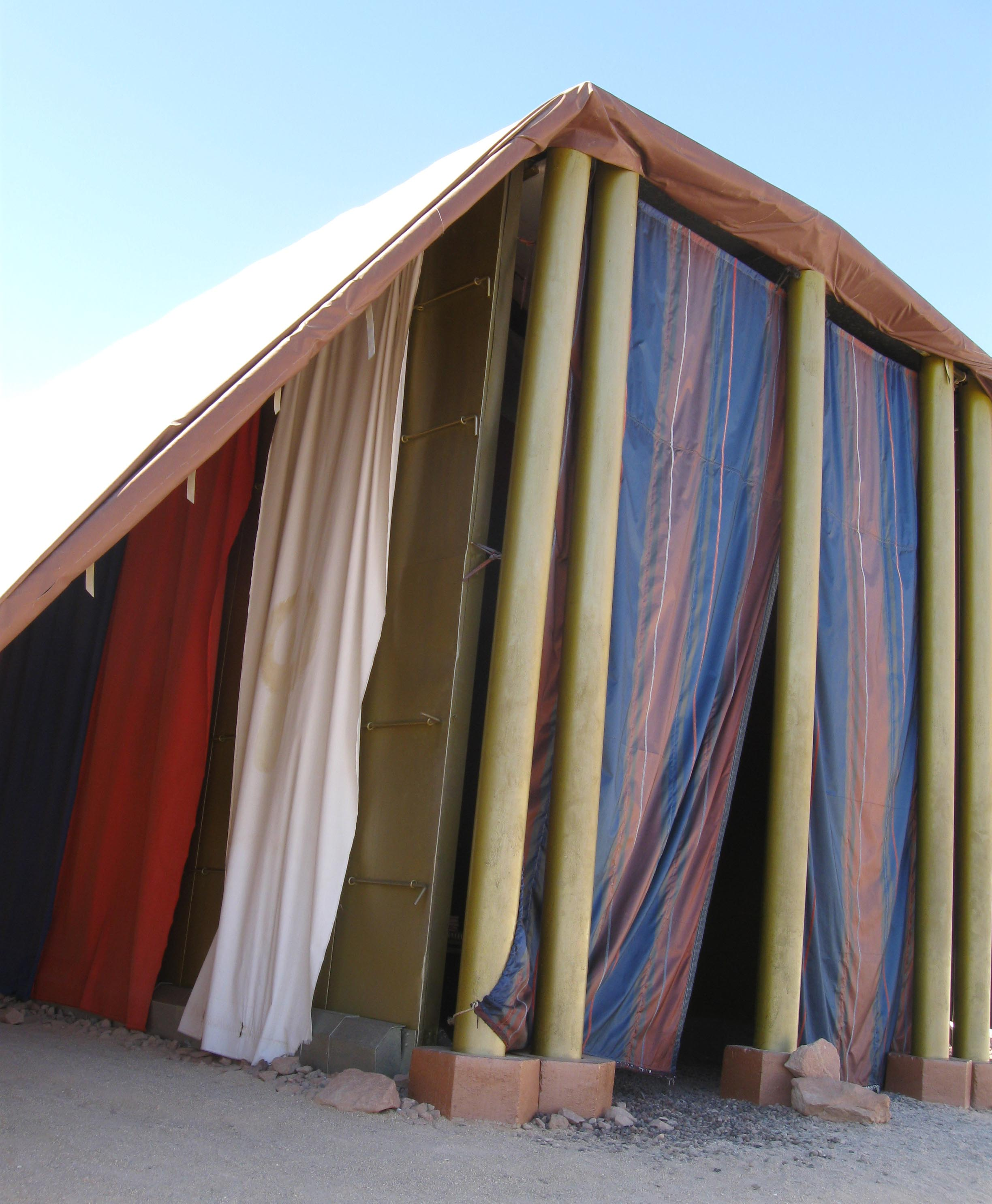 Close look at the full size replica of the Israelite Tabernacle (Mishkan) in Timna valley, Israel.